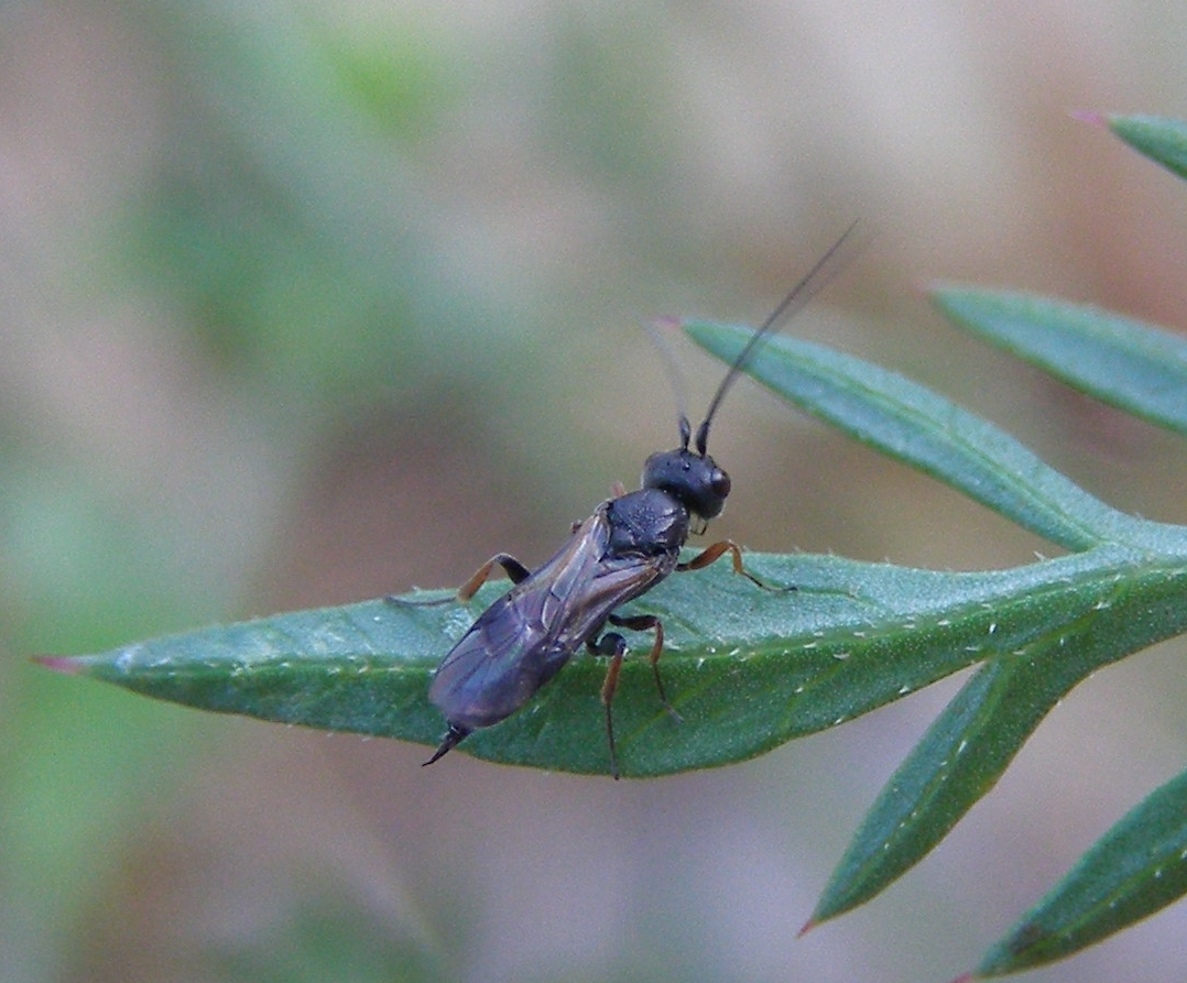 In the early morning. Braet ID